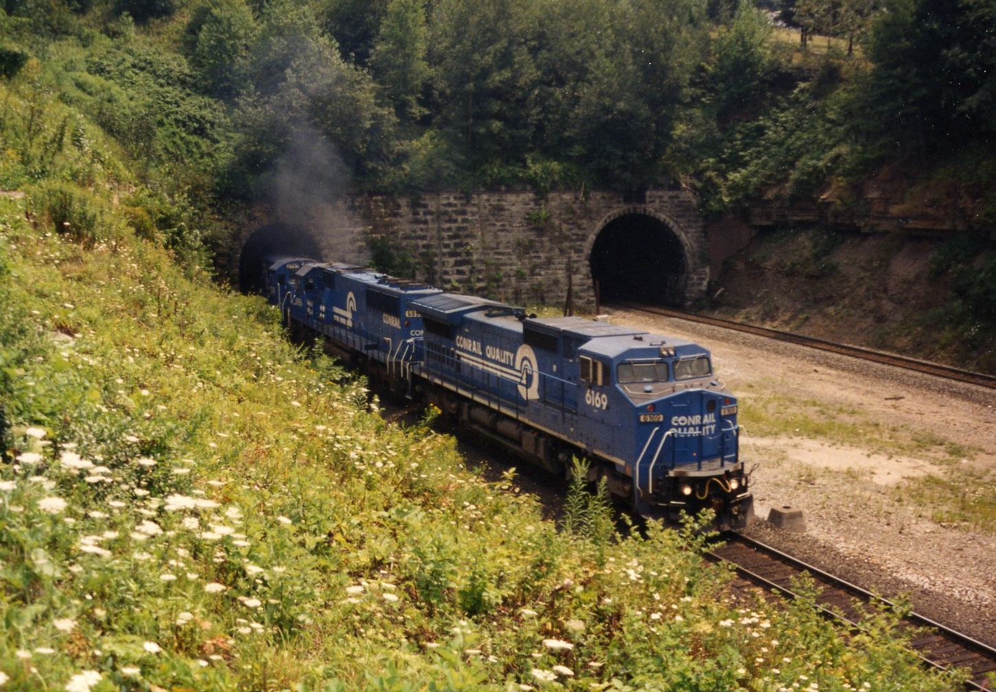 Conrail 6169 exiting Gallitzin Tunnel in 1993.